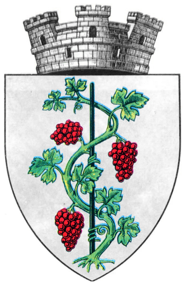 Interwar coat of arms of Drăgășani, Vâlcea County, Kingdom of Romania.